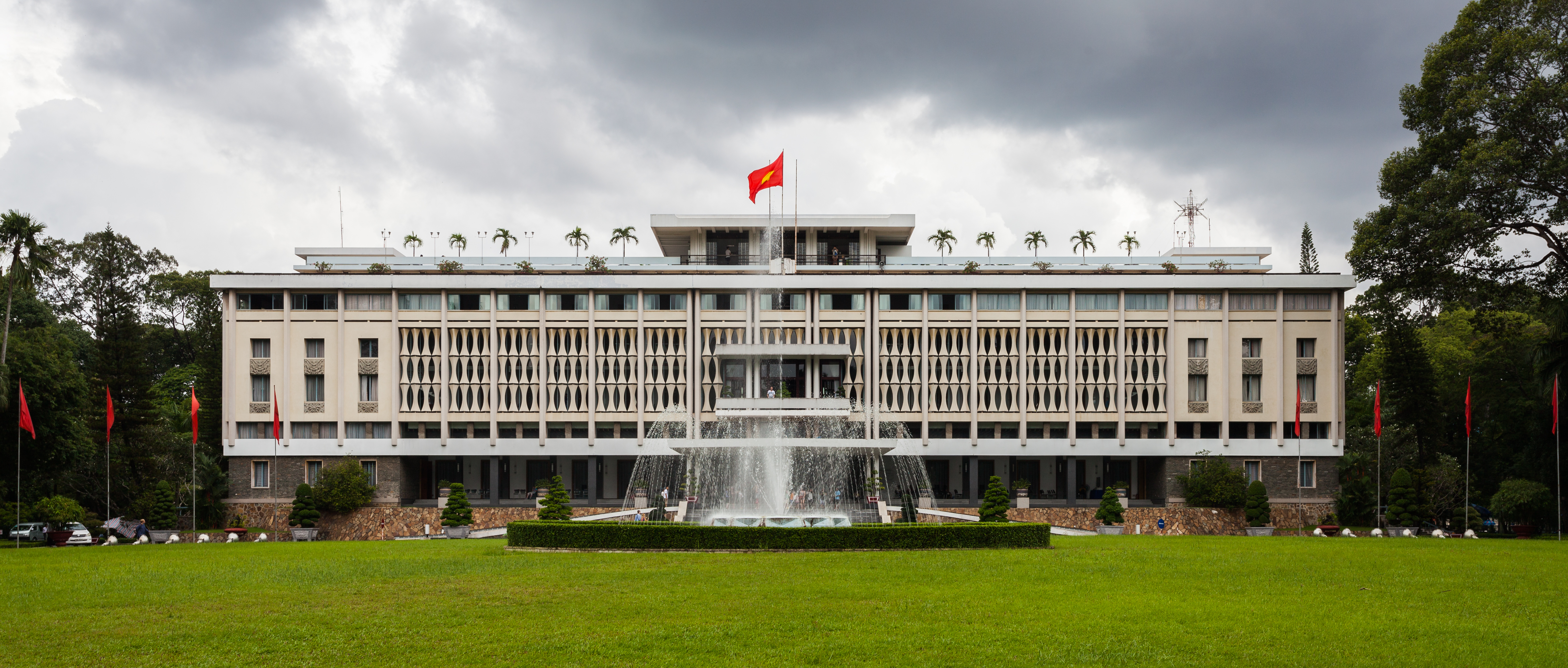 Reunification Palace, Ho Chi Minh City, Vietnam